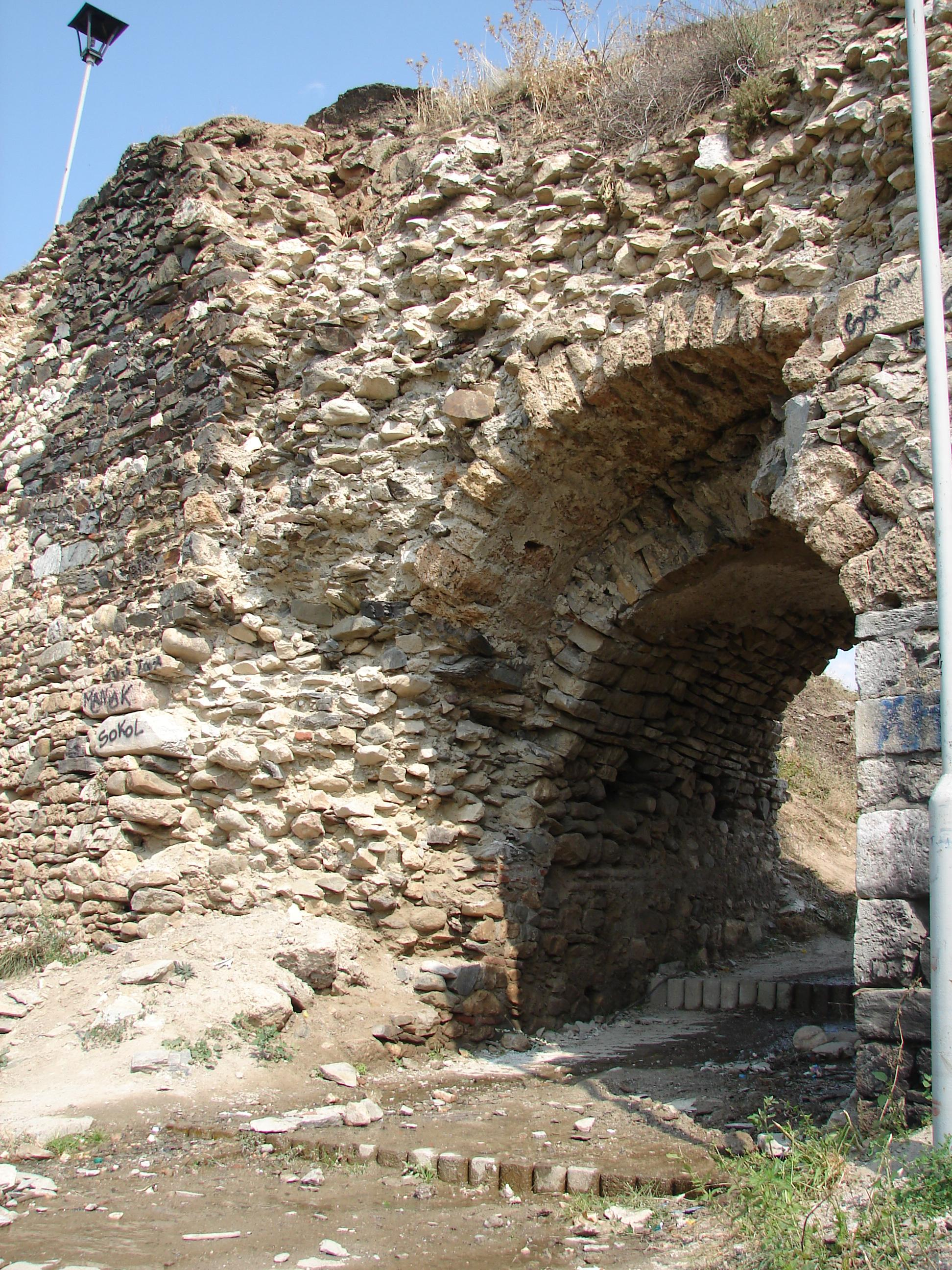 Entrance to the Kaljaja fortress above Prizren.